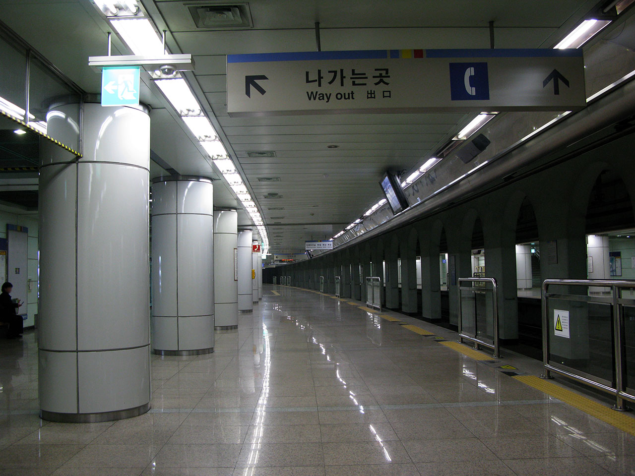 Incheon Subway Line 1 Munhak Sports Complex Station Platform